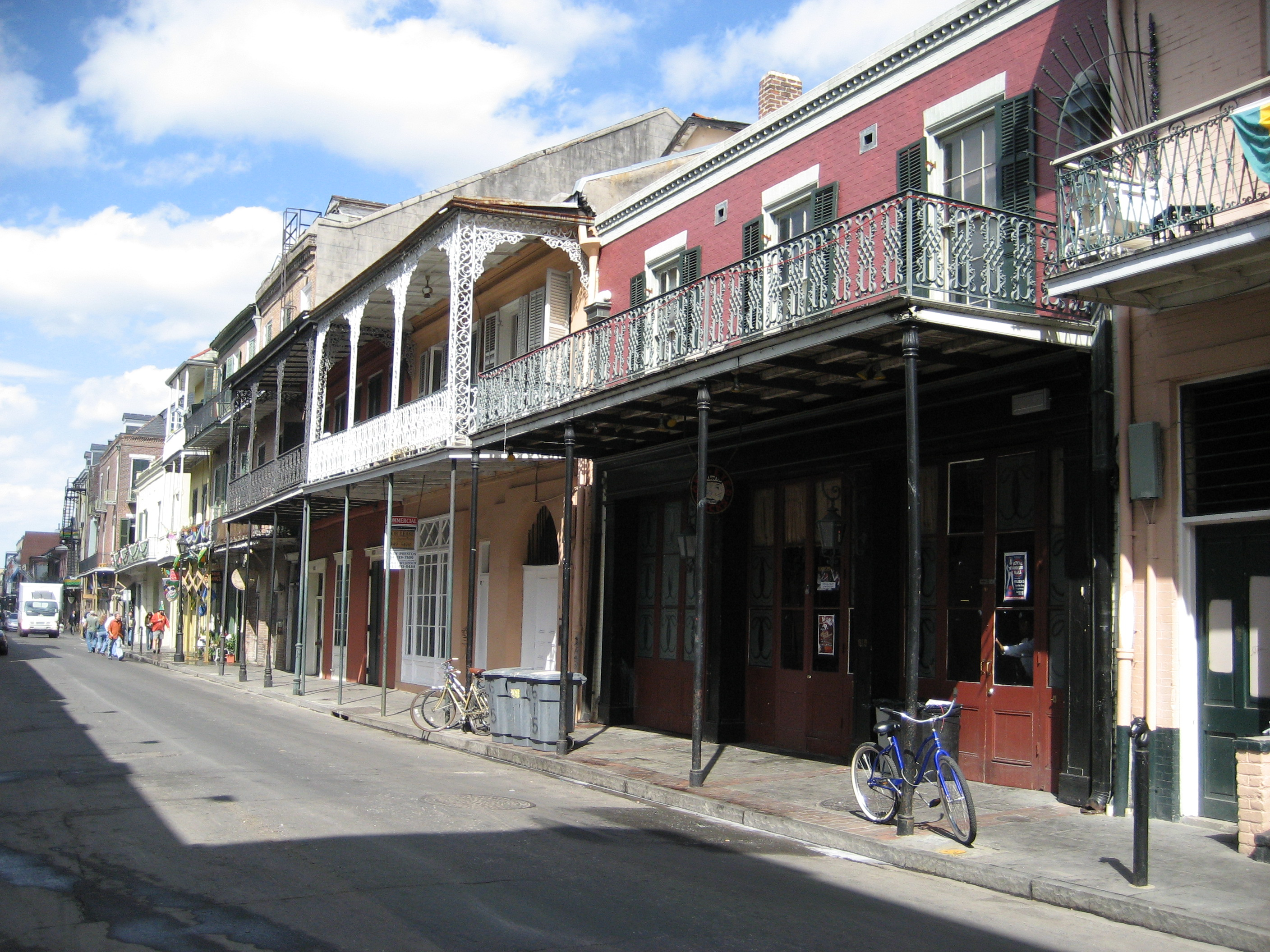 French Quarter of New Orleans, Louisiana One Eye'd Jack's, formerly the Shim Sham Club and long the Toulouse Theater.